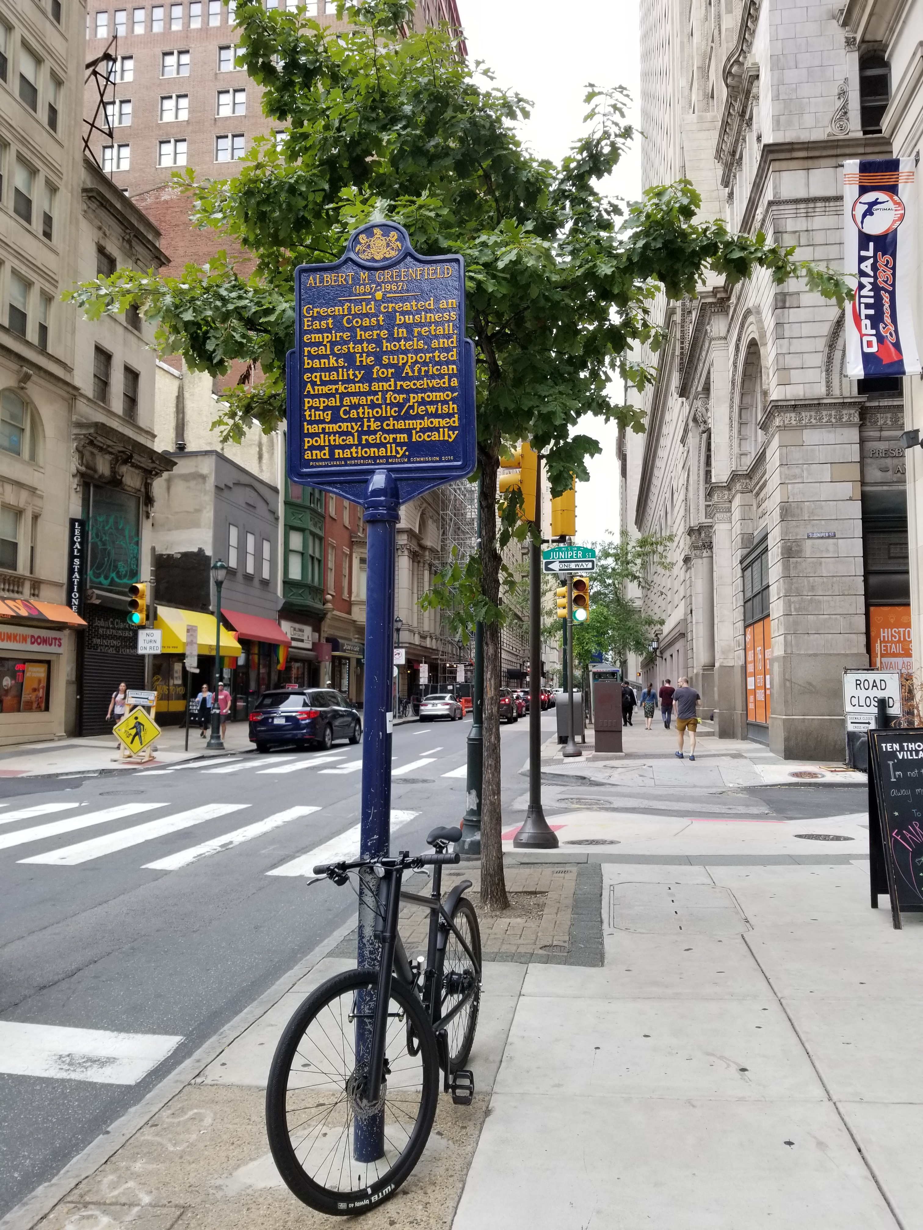 This sign, installed by the Pennsylvania Historical and Museum Commission in 2016, honors Albert M. Greenfield for his contributions to the city and its people.